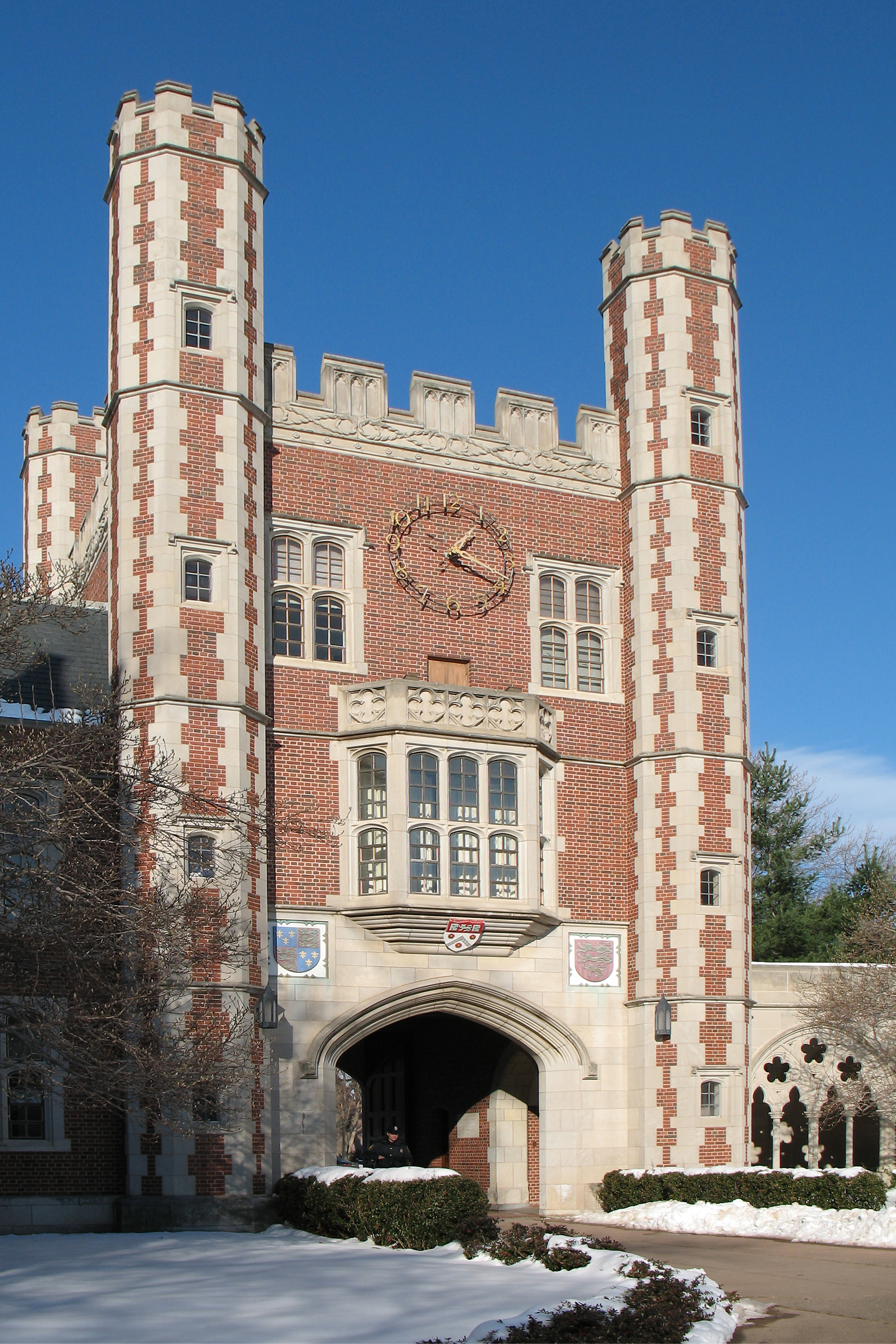 Downes Memorial Clock Tower on Trinity College's campus in Hartford, Connecticut.